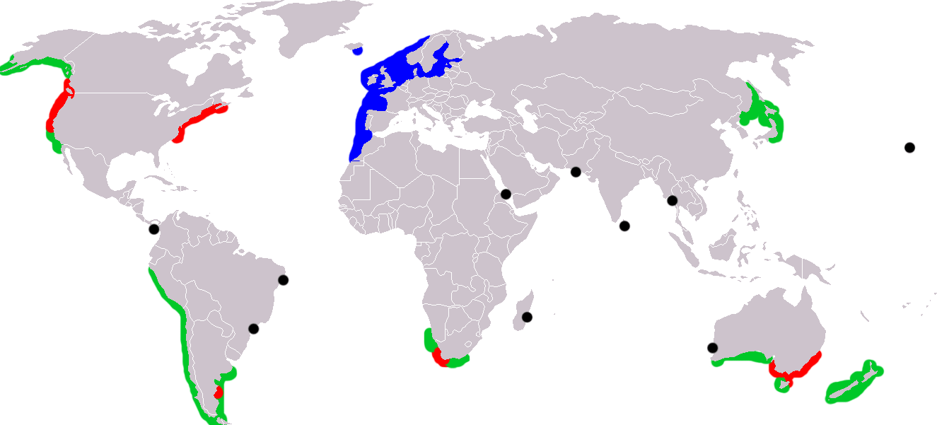 Diagram of the approximate natural (blue) and invasive (red) range of the crab Carcinus maenas.